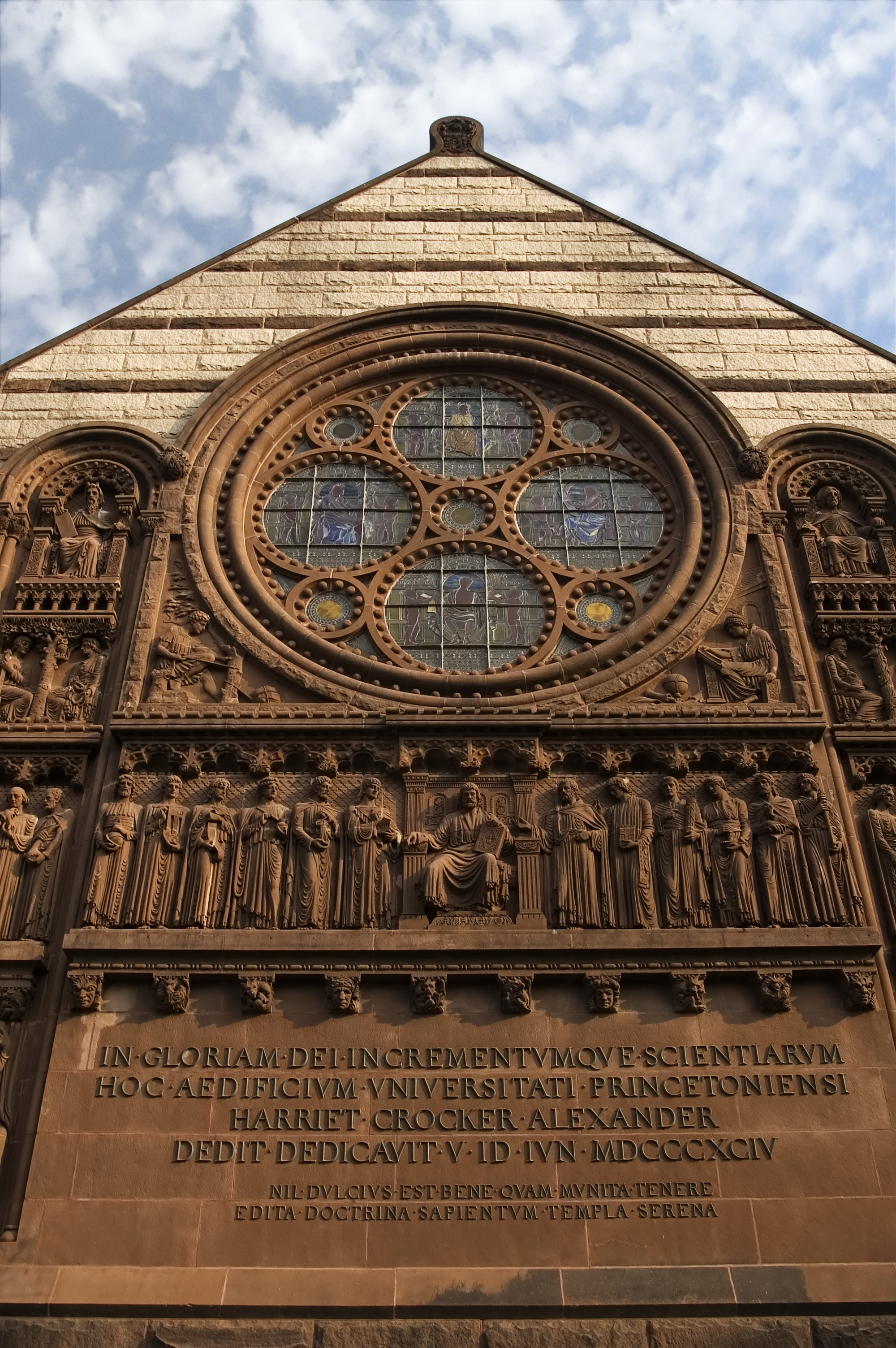 Latin Wall, Alexander Hall, Princeton University, New Jersey, USALatin Wall